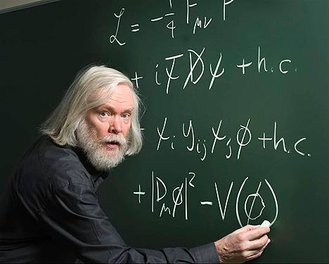 Professor John Ellis